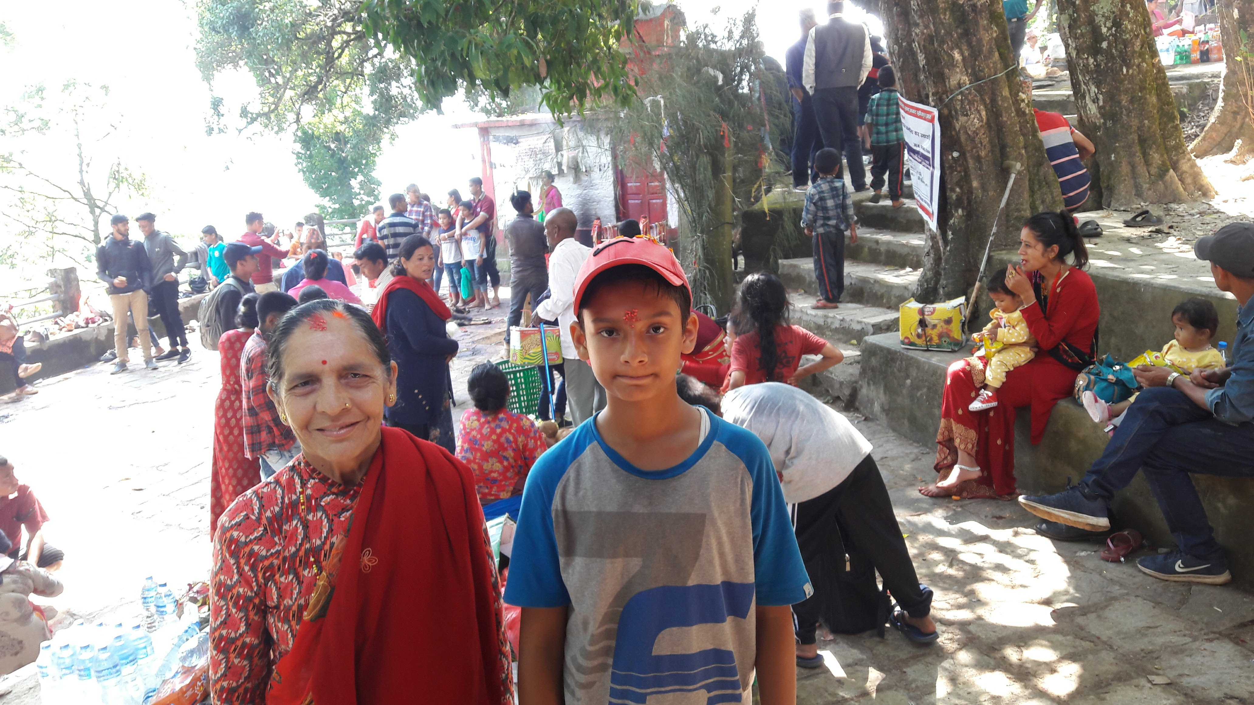 Temple